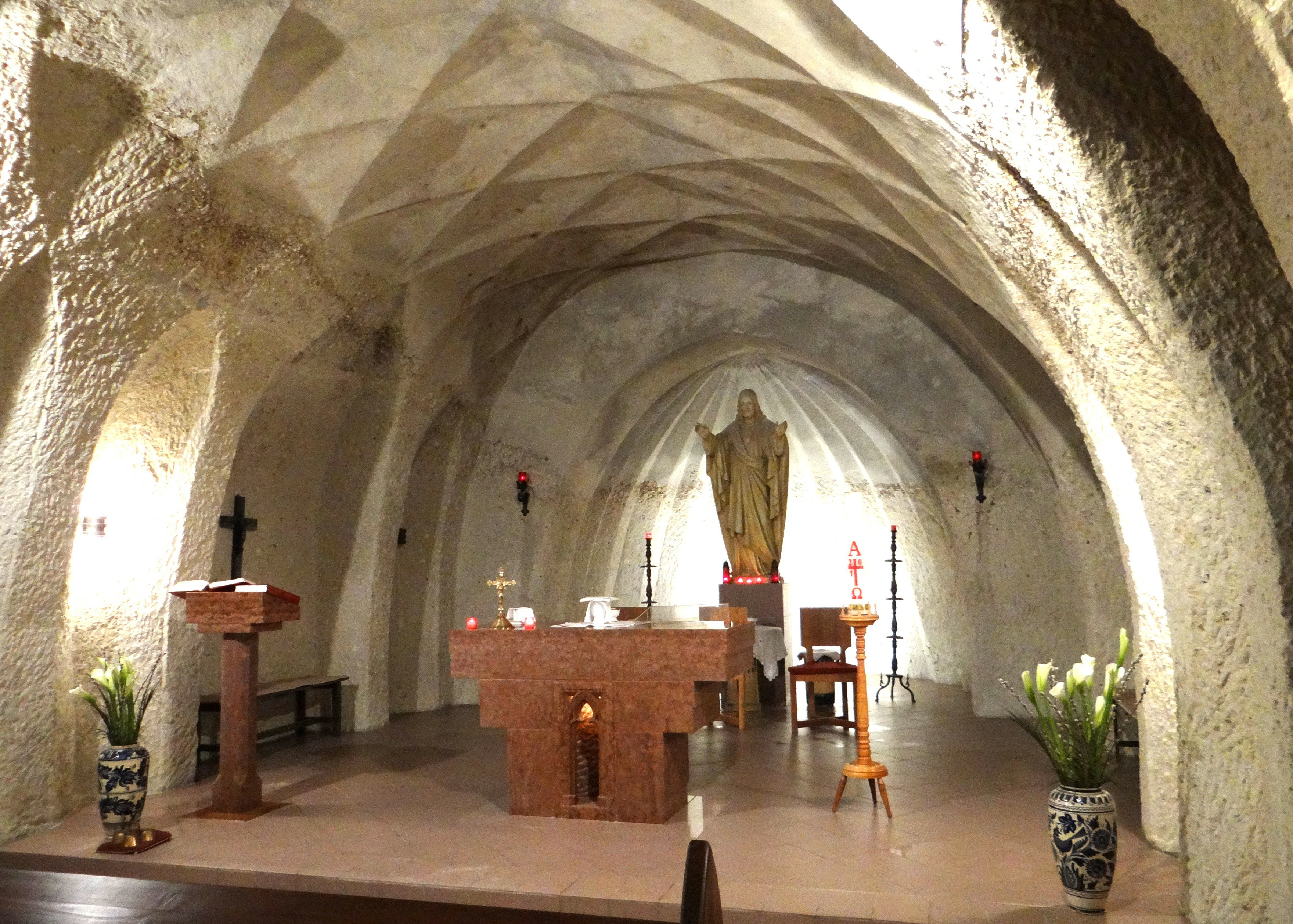 Rock Chapel, Miskolctapolca, Hungary